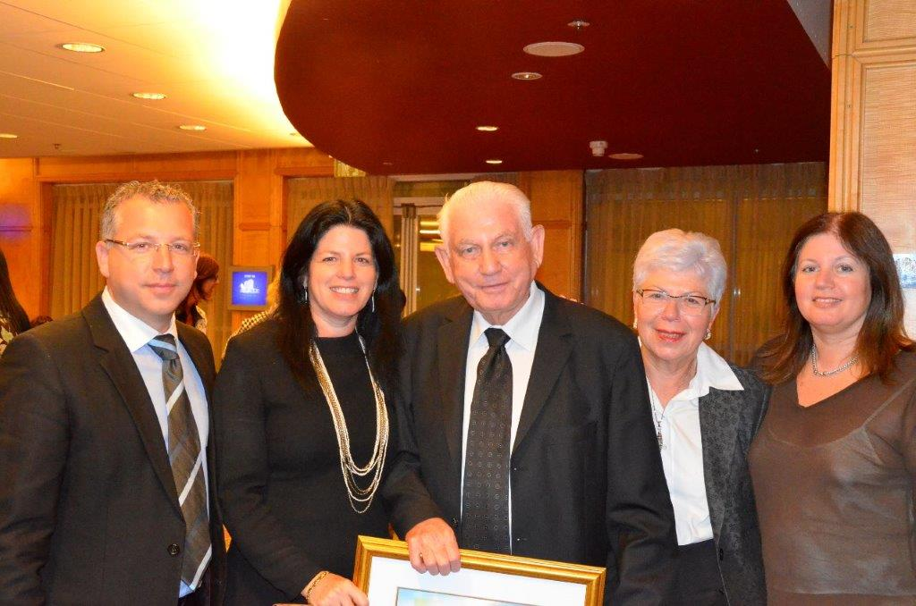 Zvi Plada